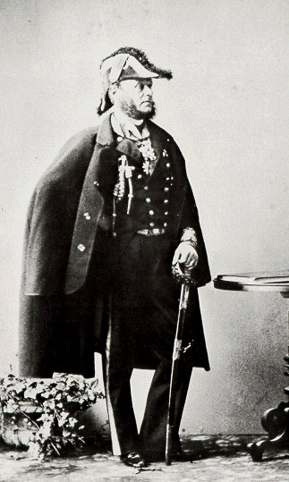 Carlo Pellion di Persano (1806 – 1883), Italian admiral and politician.